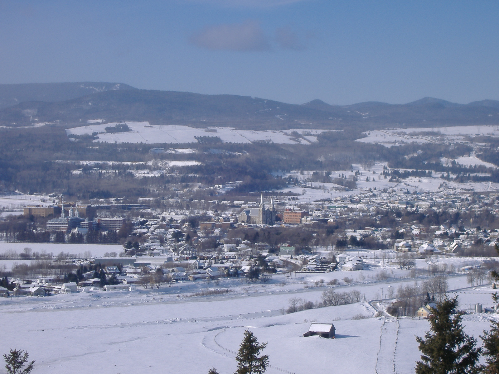 Photo taken from a high perspective, winter 2008.